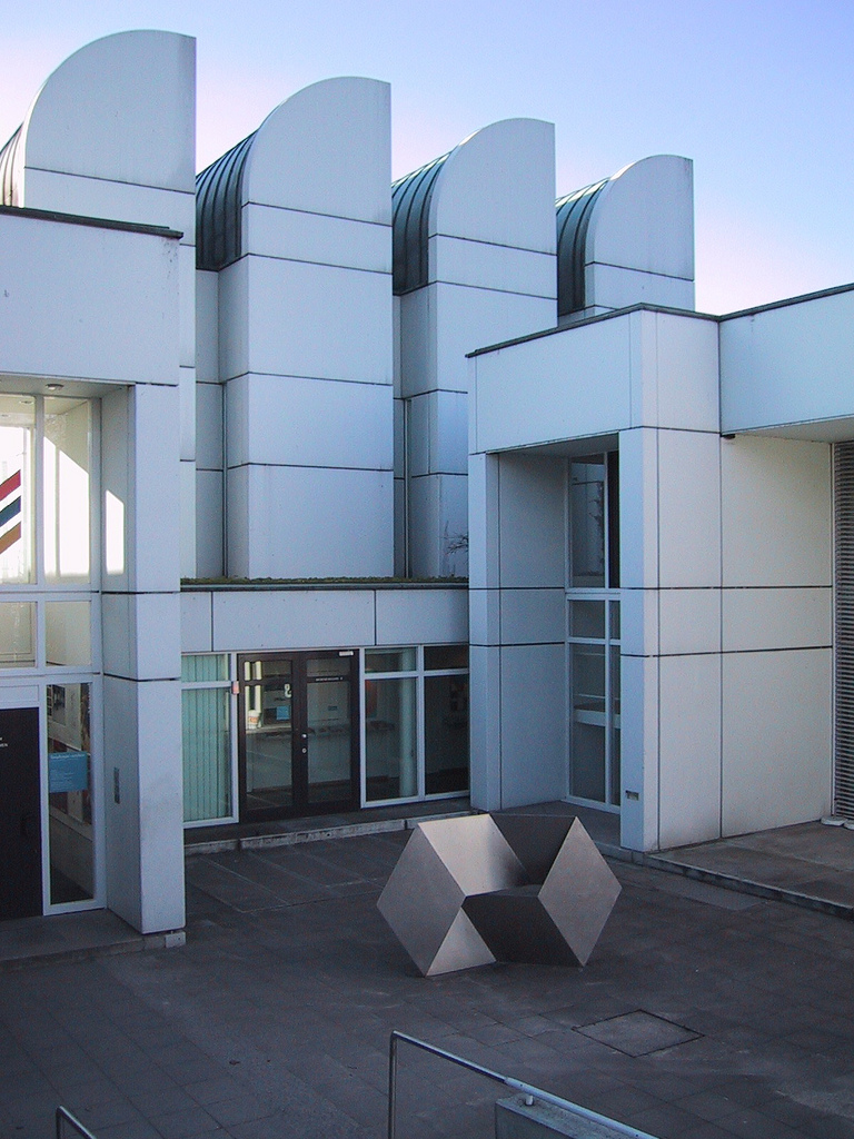 a video about the max bill exhibition 2008